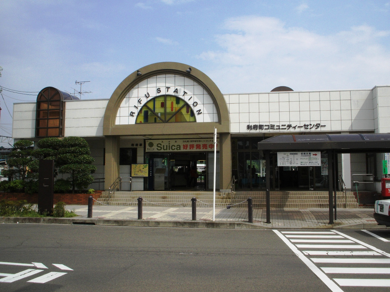 Rifu Station in Miyagi Prefecture, Japan